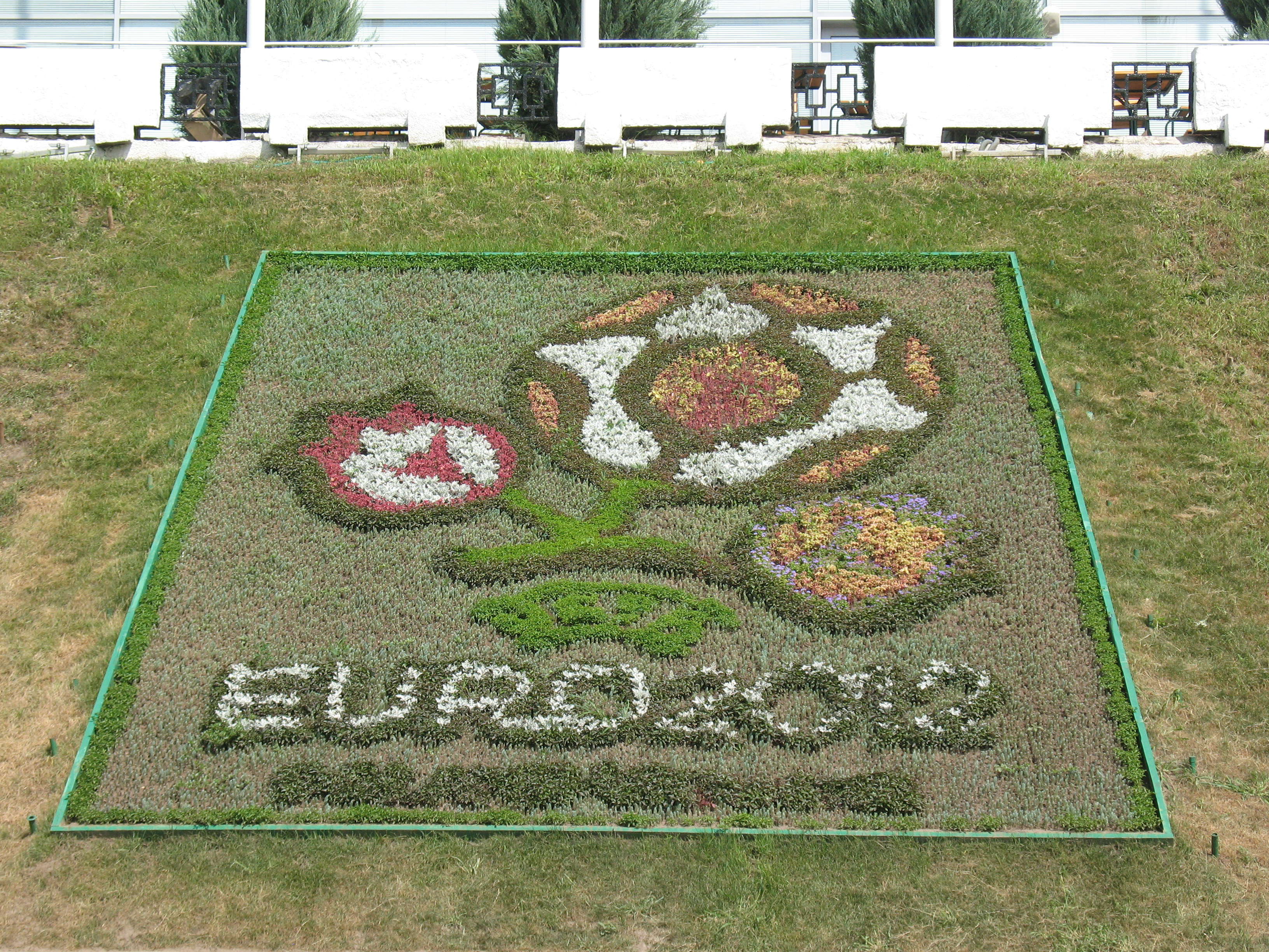 EURO Football 2012 public flower emblem in Kharkov. 2010